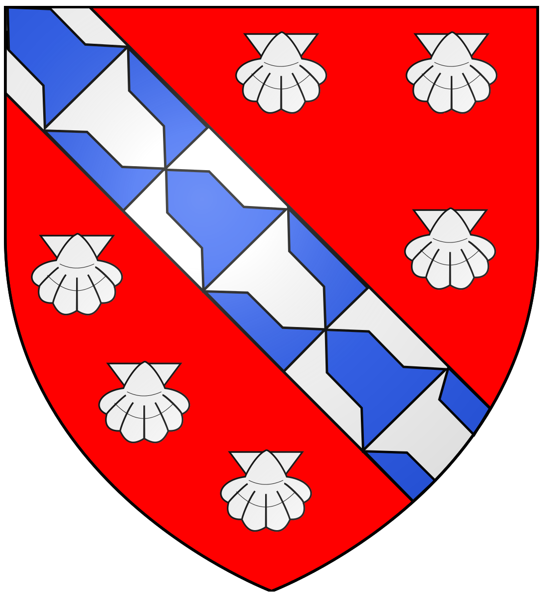 Arms of Beaupel of Landkey and Knowstone, North Devon, England: Gules, a bend vair between six escallops argent (Pole, Sir William (d.1635), Collections Towards a Description of the County of Devon, Sir John-William de la Pole (ed.), London, 1791, p.463)